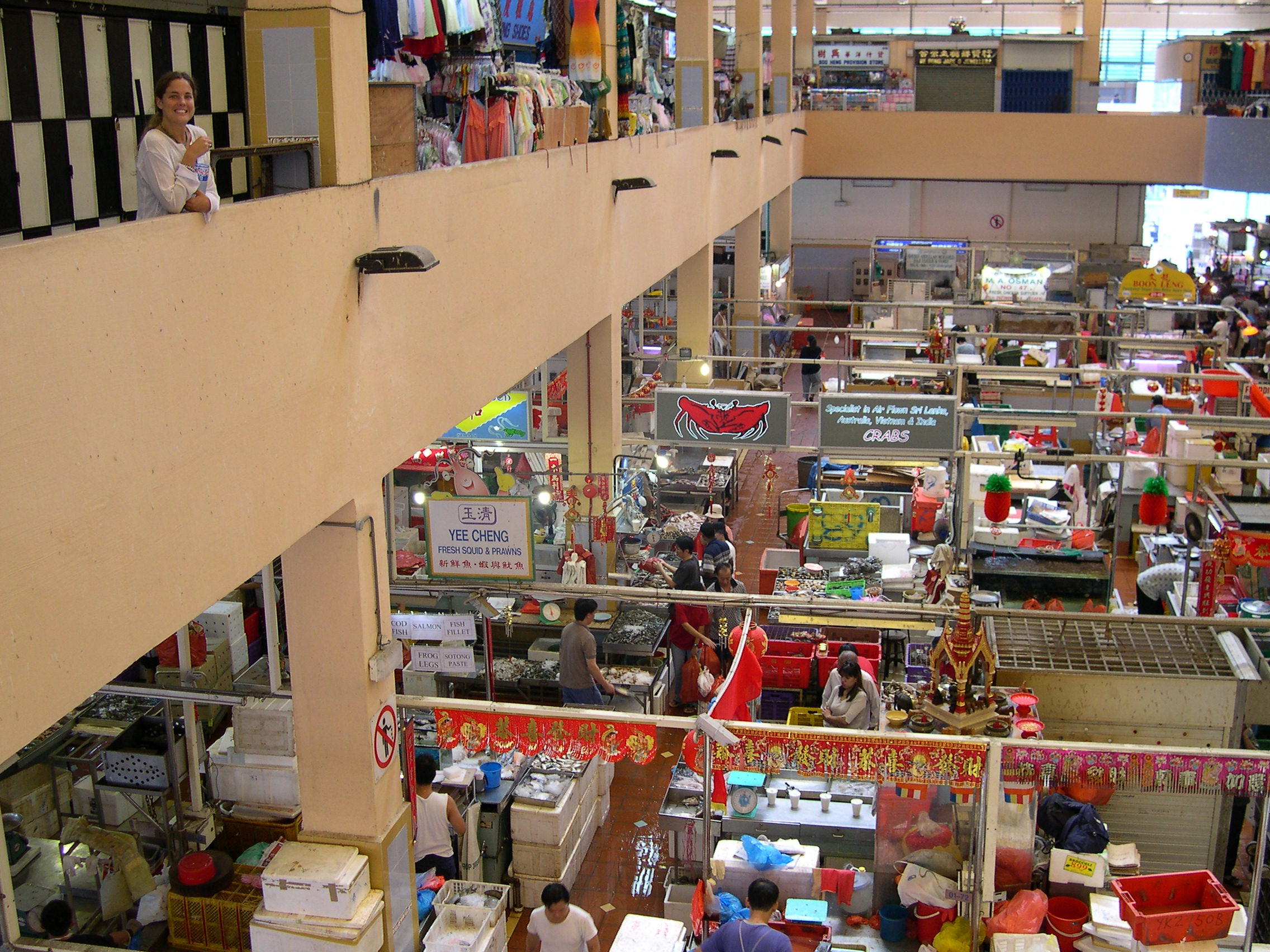 A wet market in Tekka Centre, Singapore.